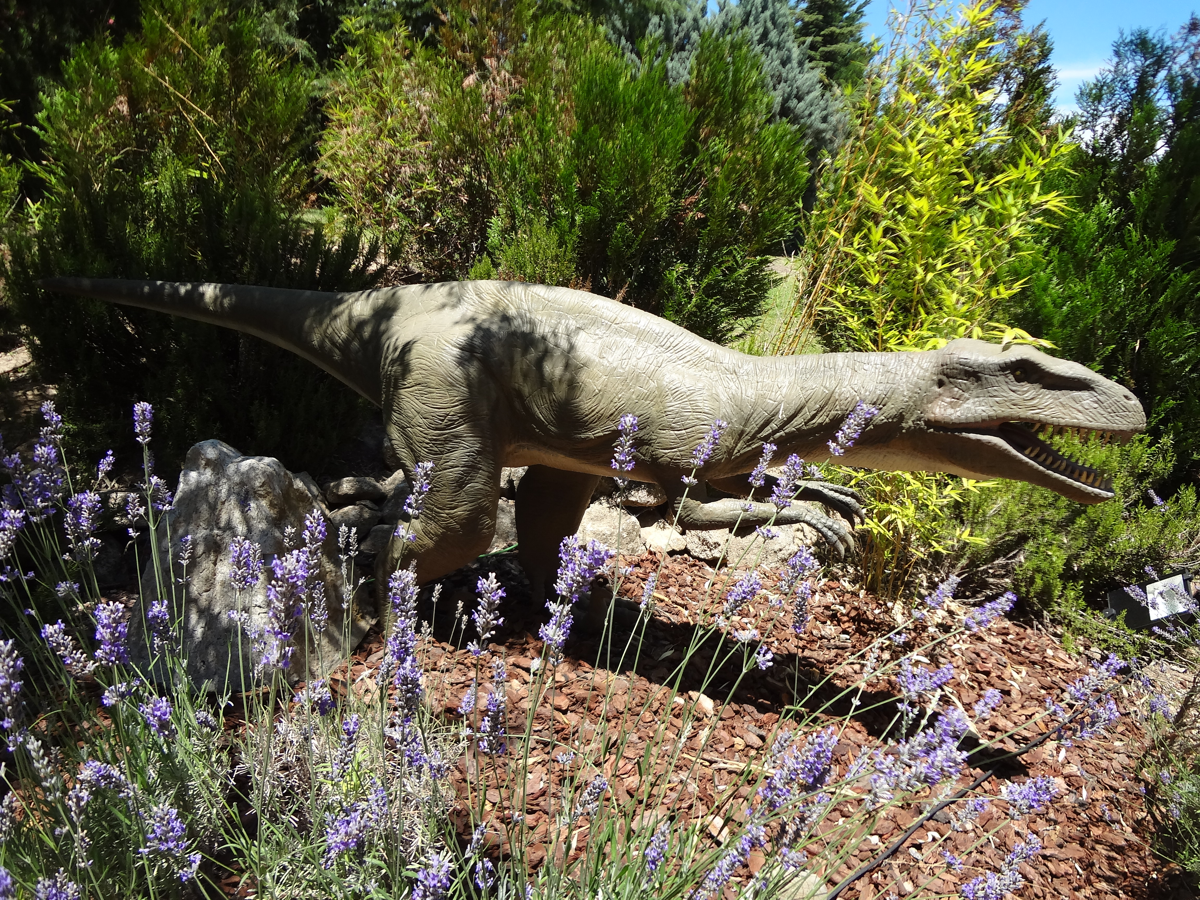 Faunia in Madrid, Spain